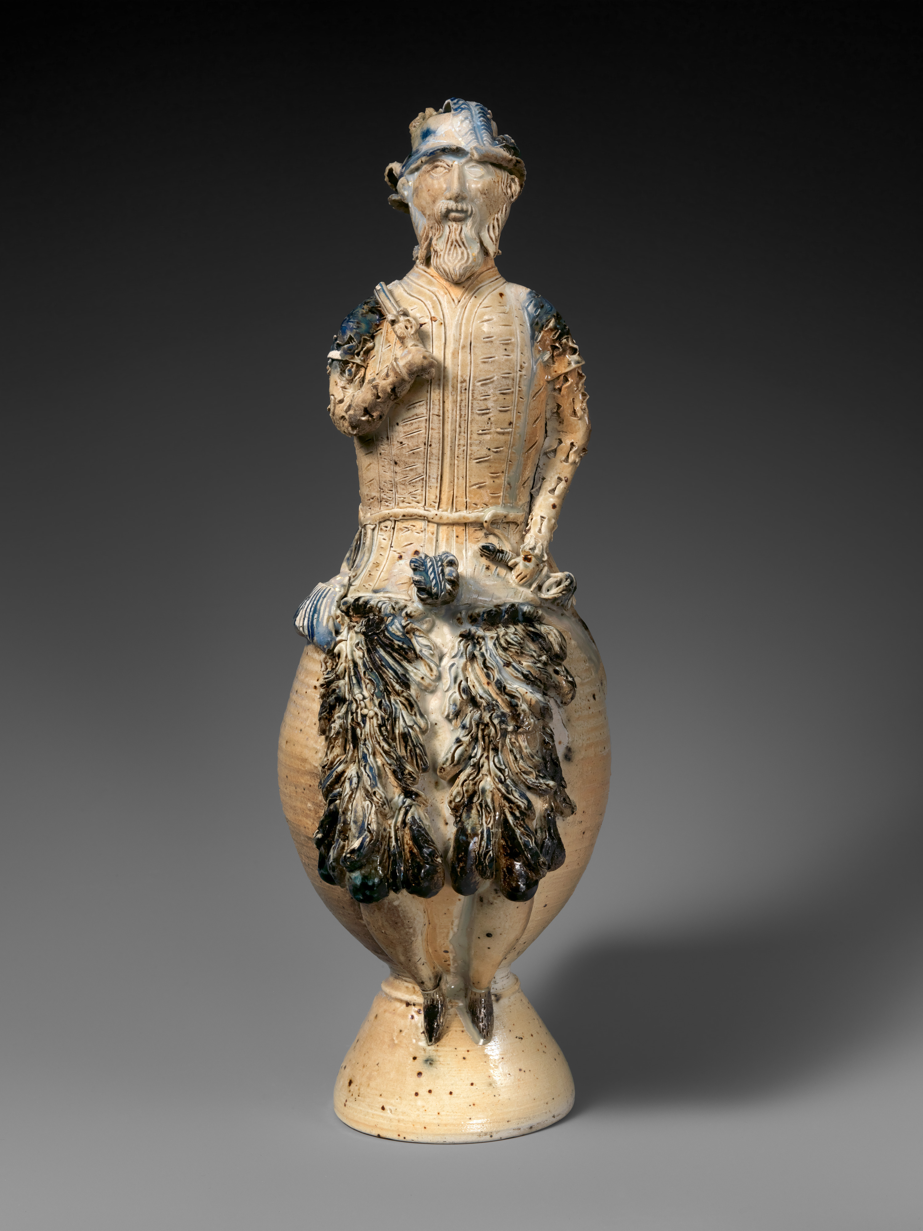 German, Cologne; Bottoms-up cup or stirrup cup; Ceramics-Pottery